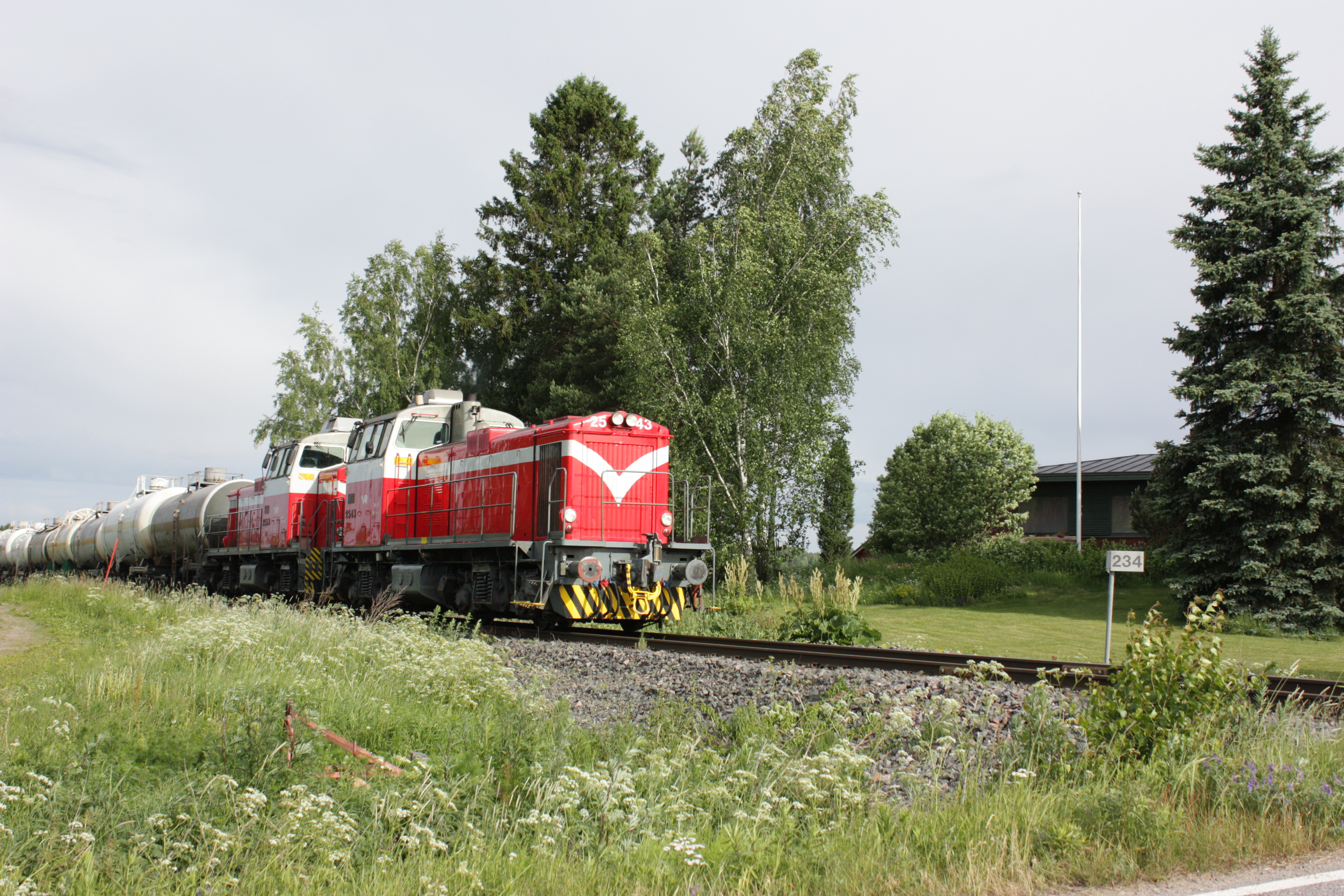 A freight train with two Class Dv12 locomotives coming from Uusikaupunki is passing the site of the former Unikankare railway stop in Mietoinen, Finland